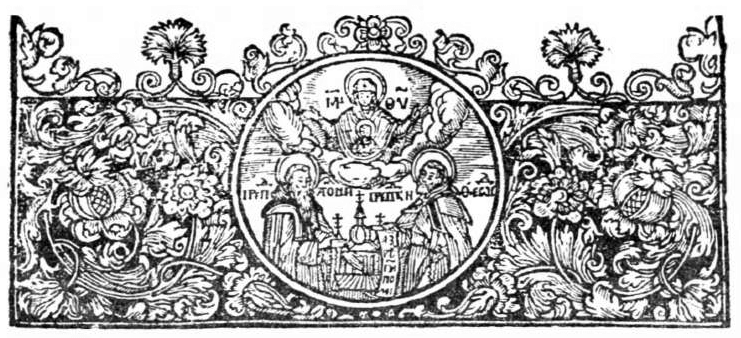 Headpiece from "Triodion", and early Ukrainian manuscript from 1642